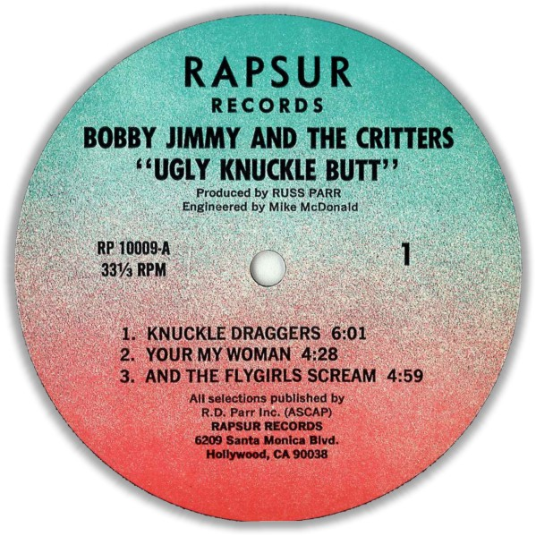 Side A of Bobby Jimmy and the Critters LP album "Ugly Knuckle Butt". The record was released in 1985 on Rapsur Records.